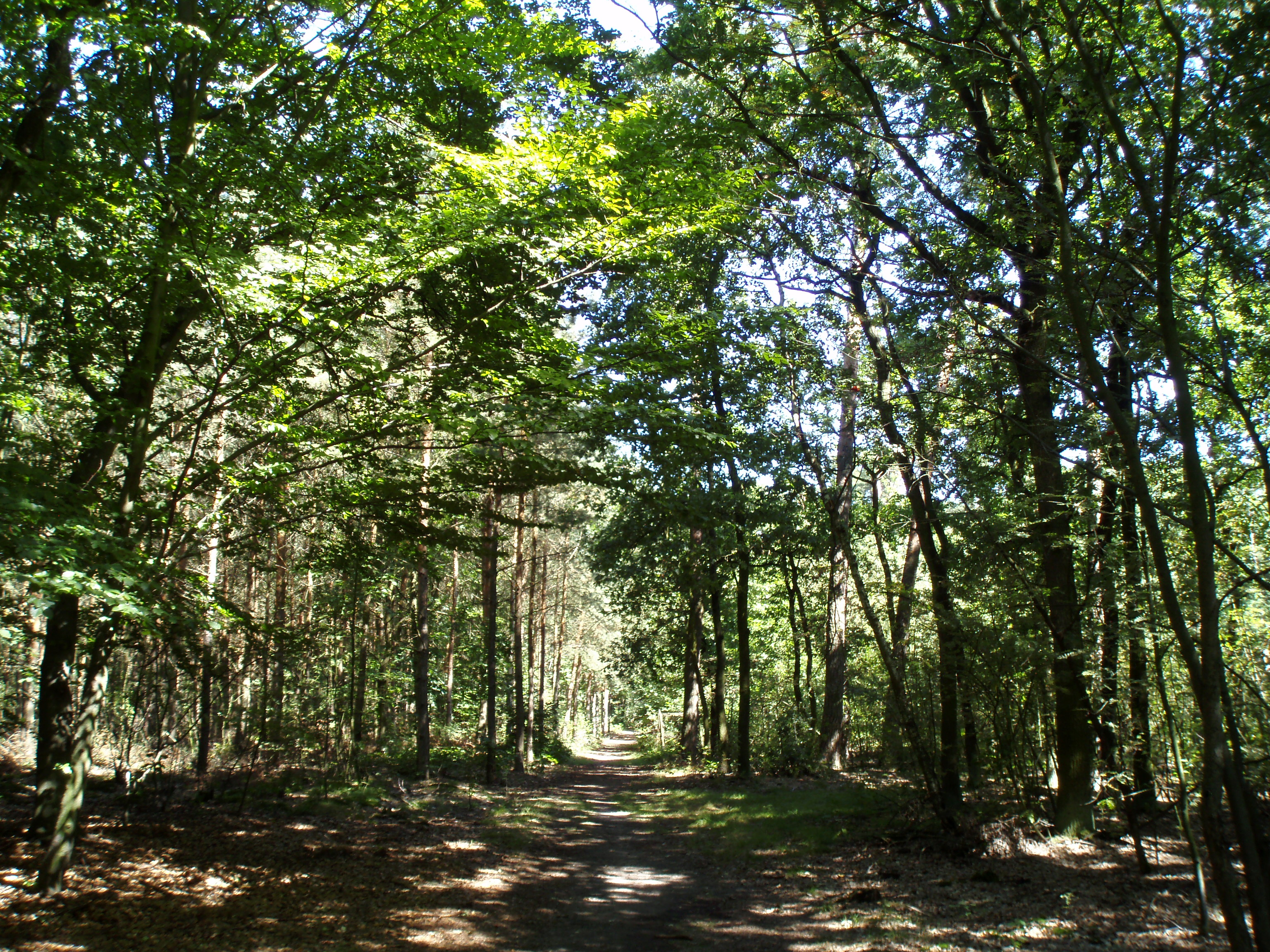 Borovinka Forest in Hradec Králové